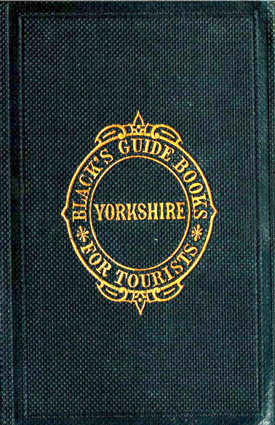 Cover of: Black's Picturesque Guide to Yorkshire (one of "Black's Guide Books for Tourists")